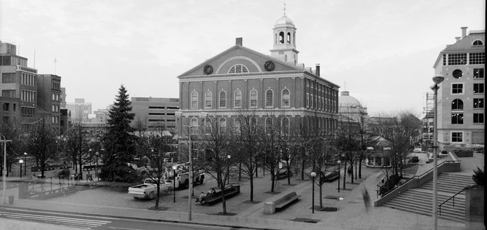 Dock Square, Boston, 1987. From the Historic American Buildings Survey, Library of Congress, Prints and Photograph Division, Washington, D.C. 20540 USA. Survey number HABS MA-163.